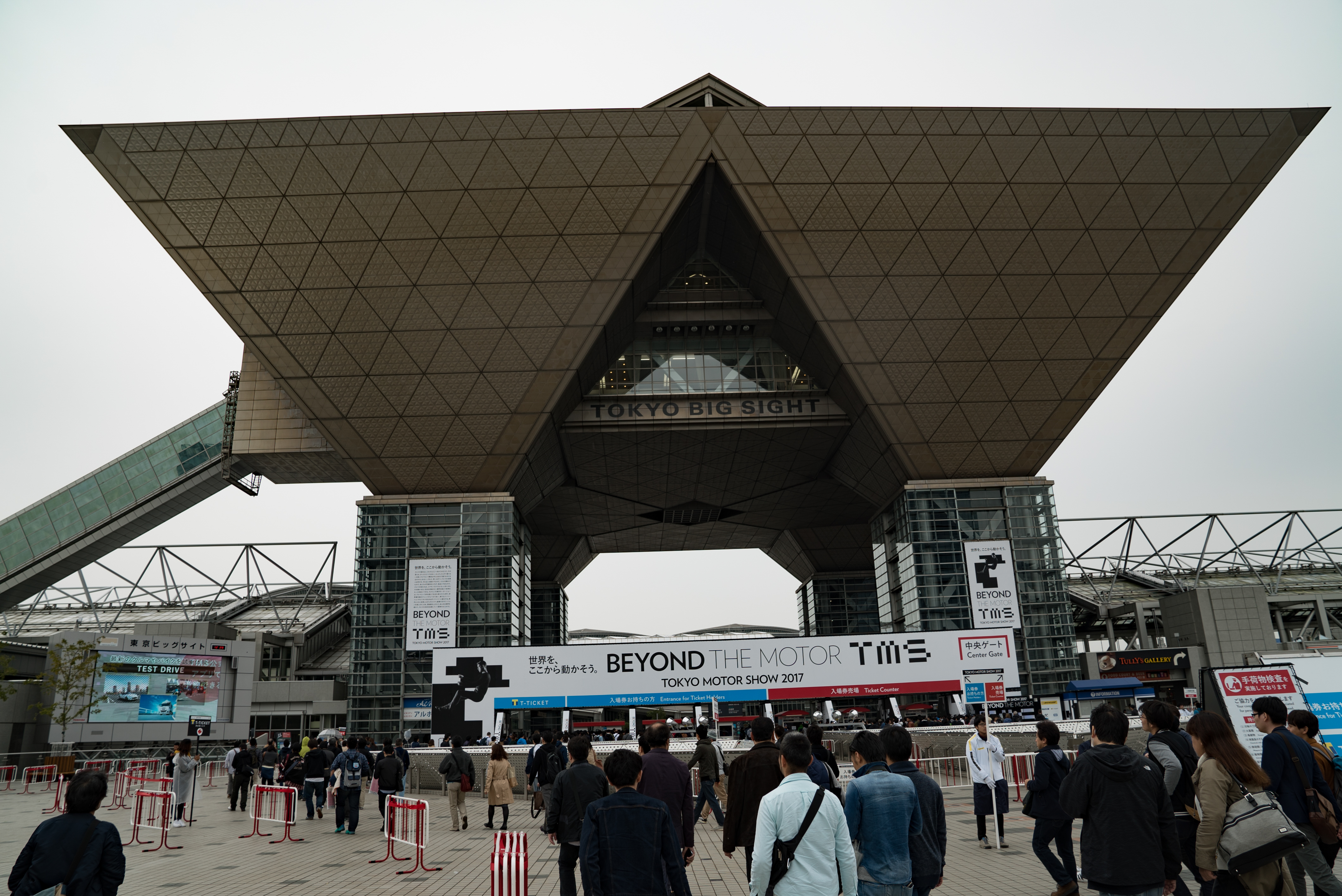 The 45th Tokyo Motor Show 2017-5.jpg